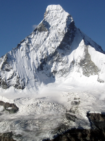 Matterhorn north face